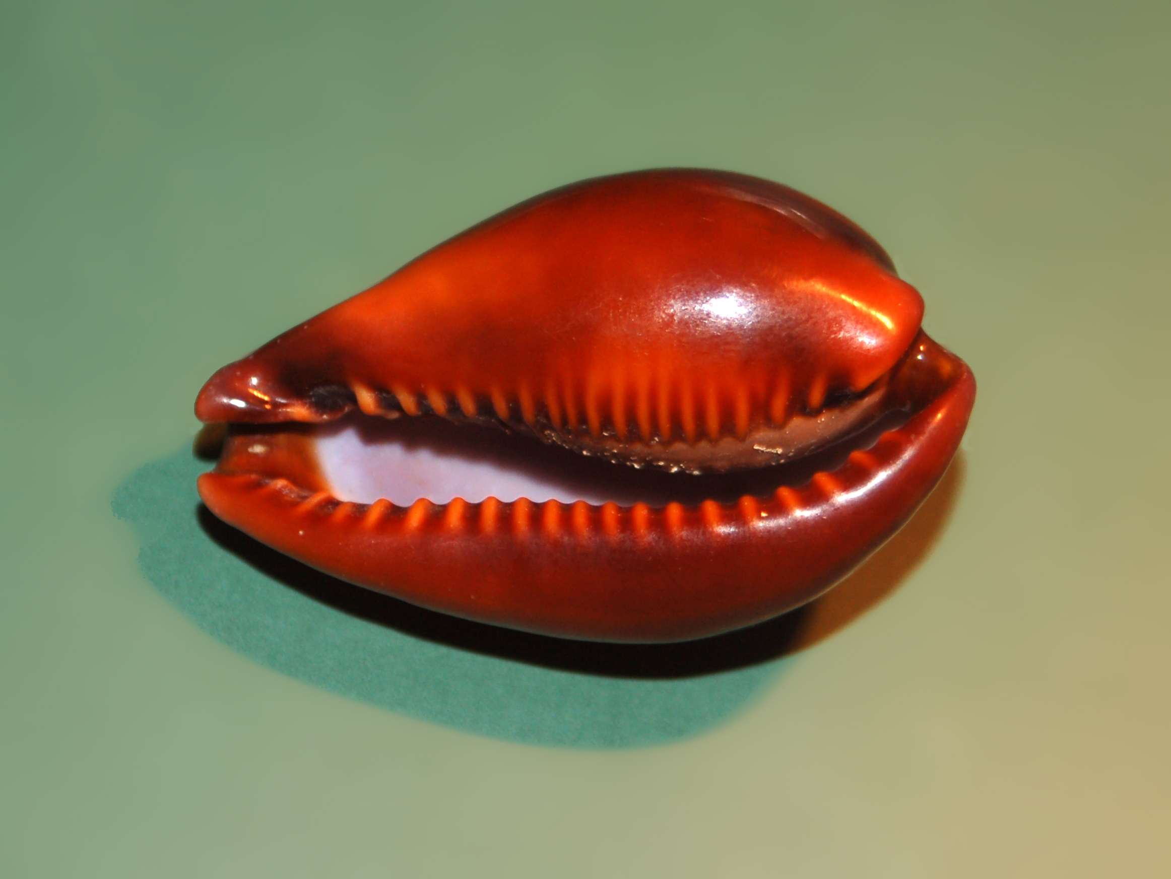 A shell of Erronea adusta succinta from Zanzibar, ventral view, anterior end towards the left